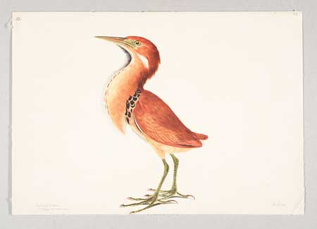 Chestnut Bittern (Ixobrychus cinnamomeus)